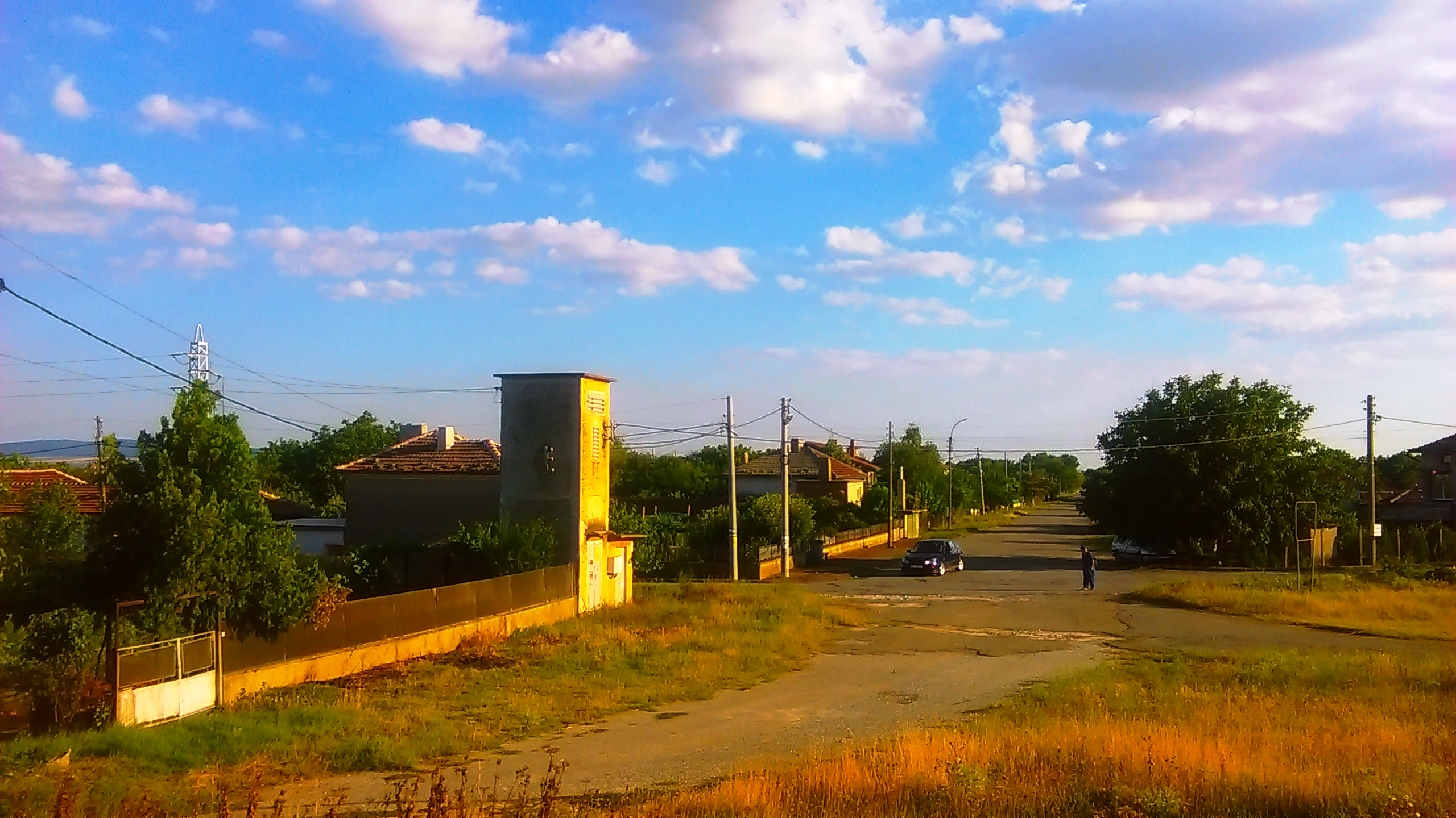 Zimnitsa as seen from Varna - Sofia railway track